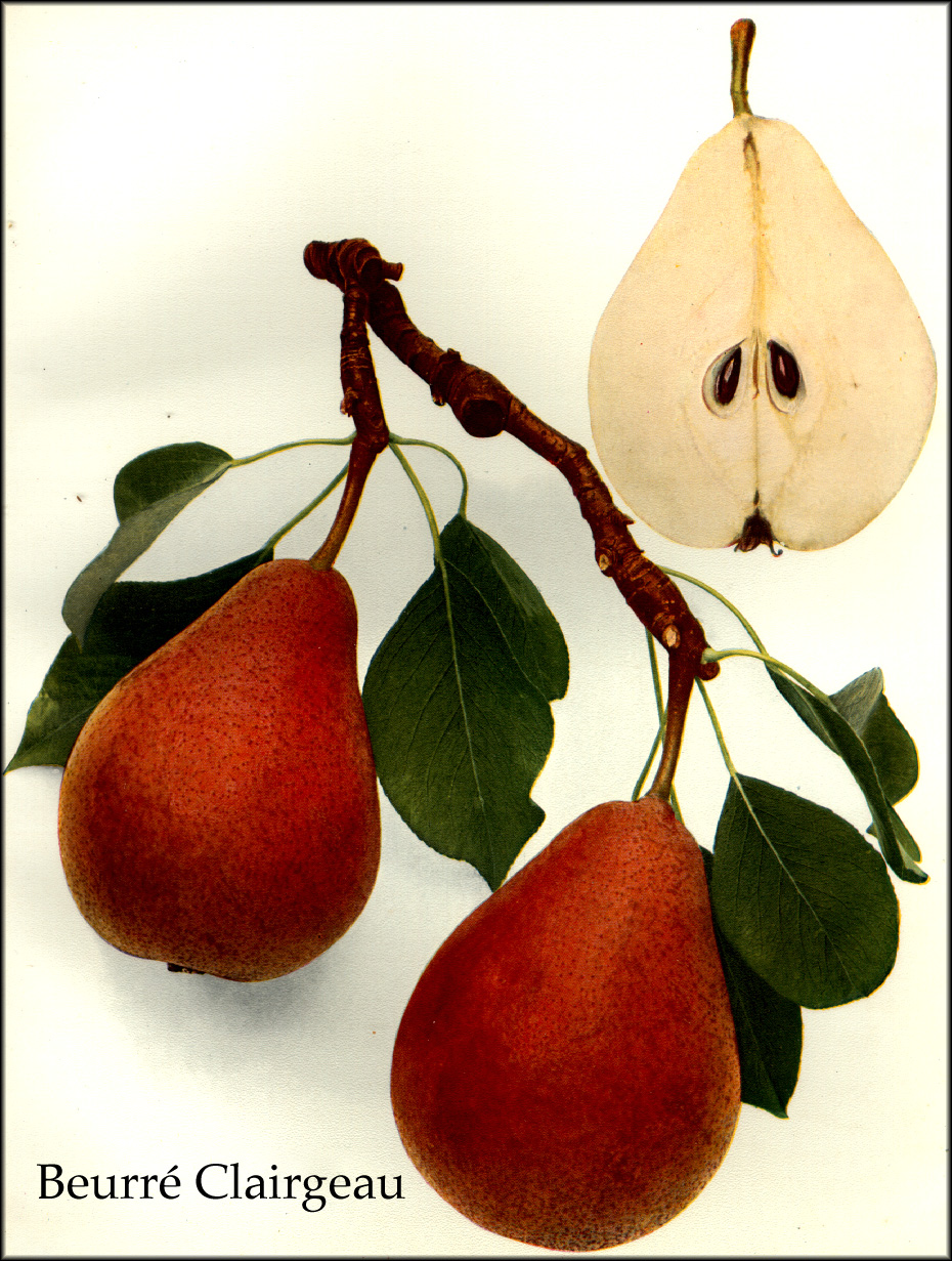 A colour plate from The Pears of New York (1921) depicting the Beurré Clairgeau pear cultivar.